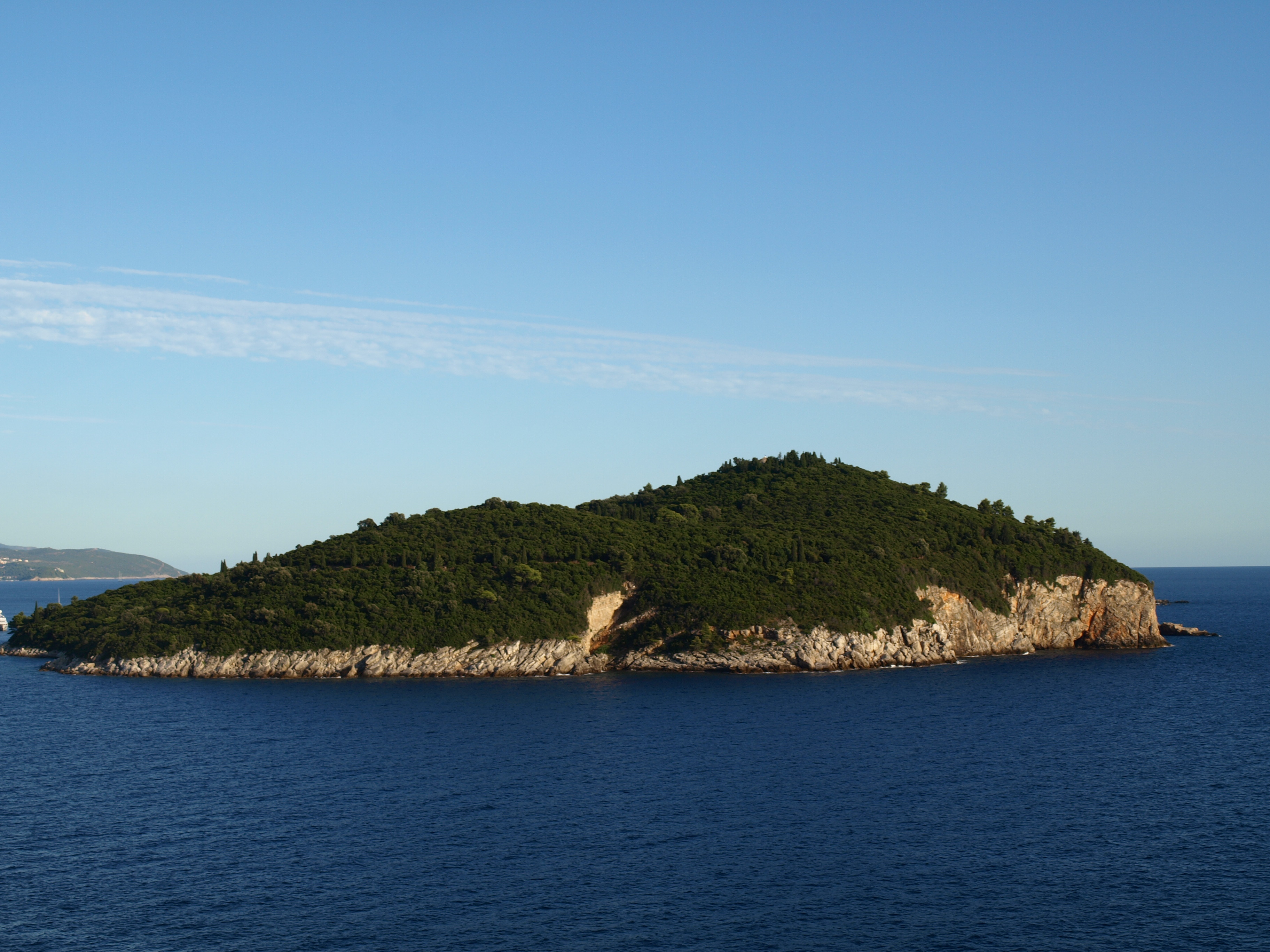 P8175747 Croatia